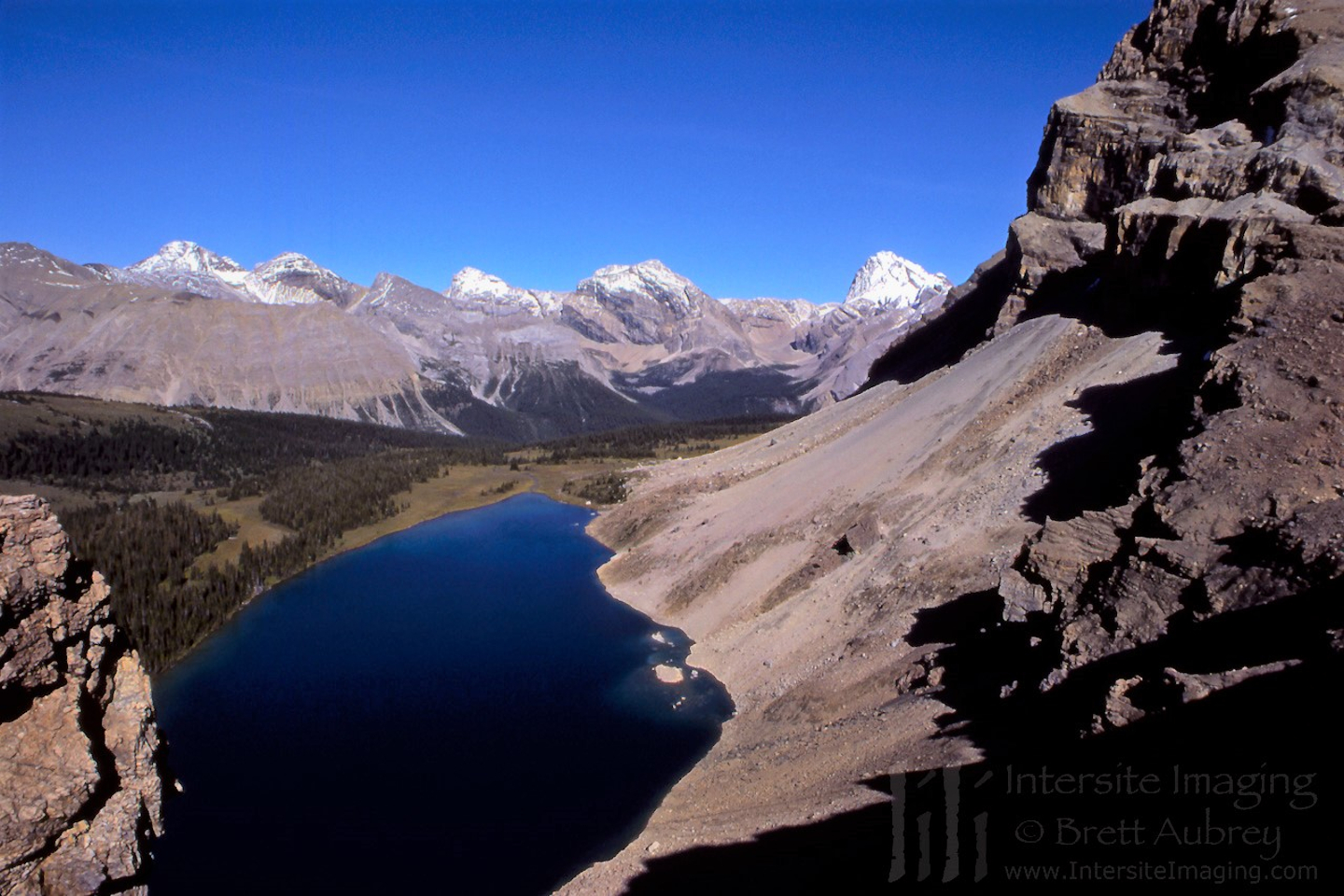 Fish Lakes by Molar Mtn; there are two Fish Lakes and the other is around to the right of Molar Mountain - this one is NW of Molar's peak and the other is NE of the summit. The summit is a walk-up.